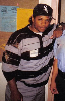 With Eazy-E as an LAPD Explorer.